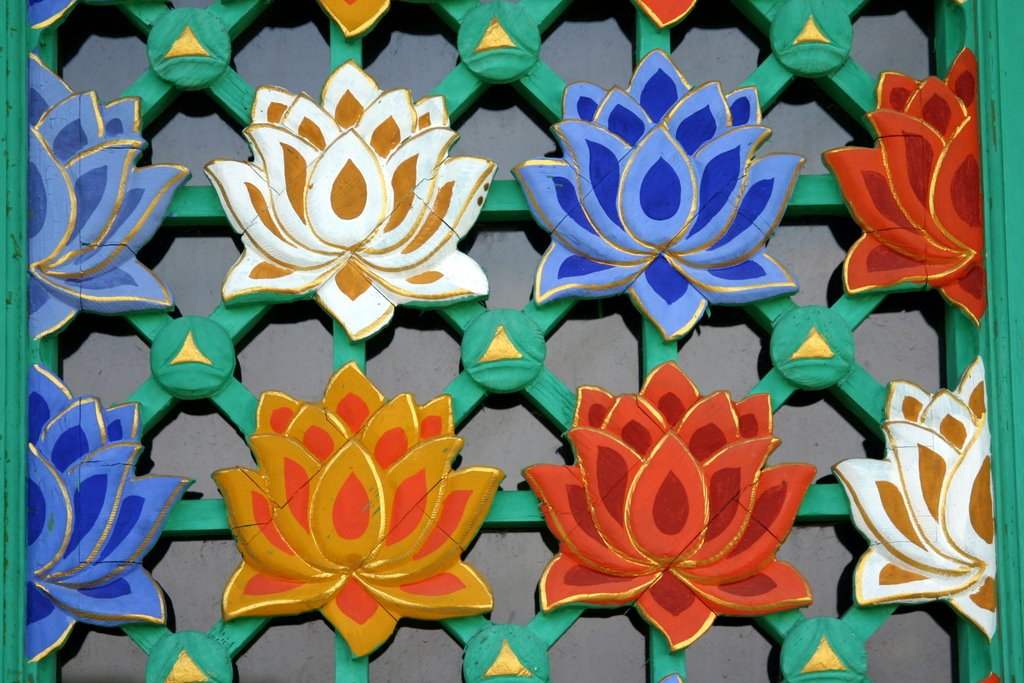 A scenery of Andong City, Gyeongsangbuk-do, South Korea on June 11, 2007.